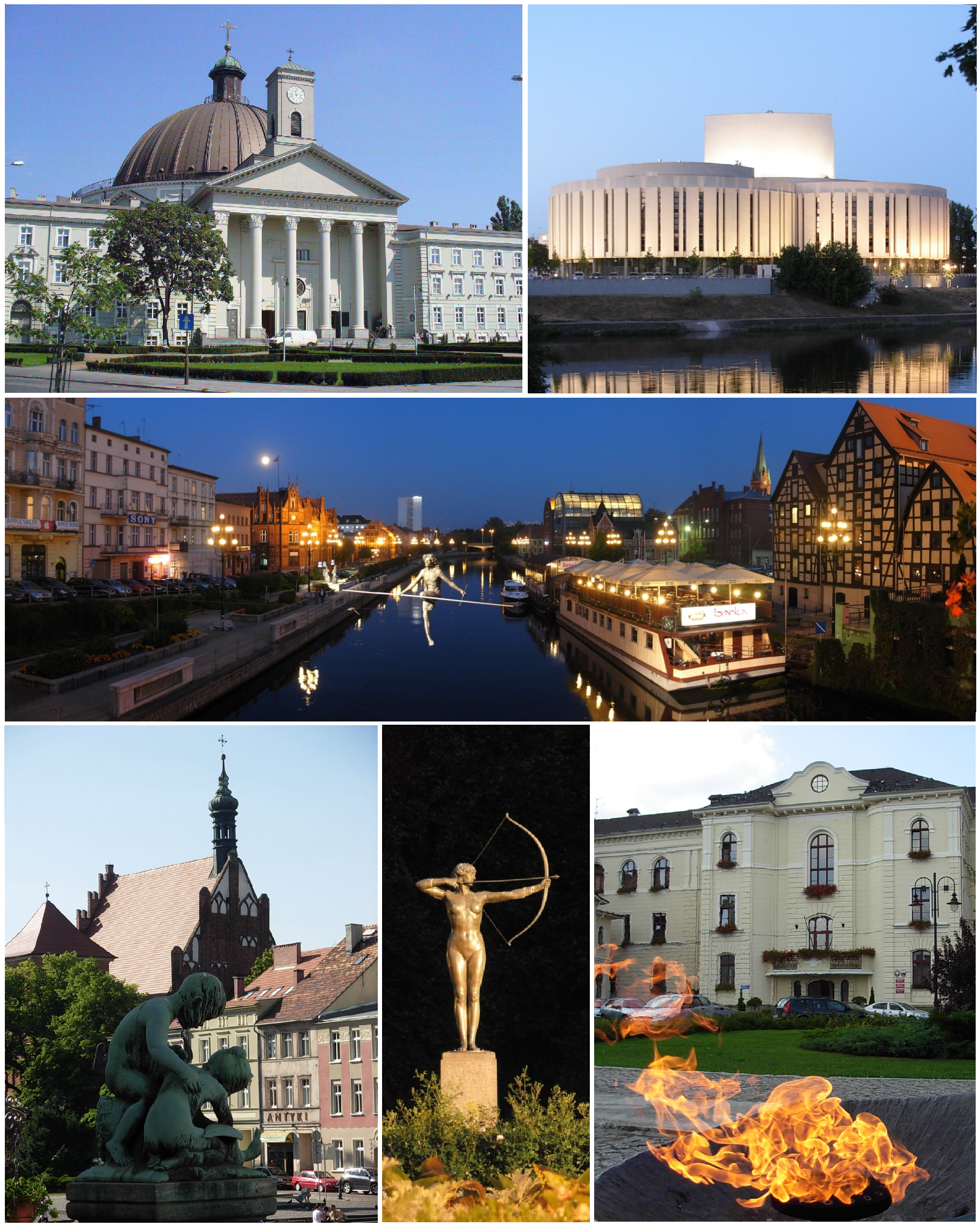 A montage of the city of Bydgoszcz, Poland